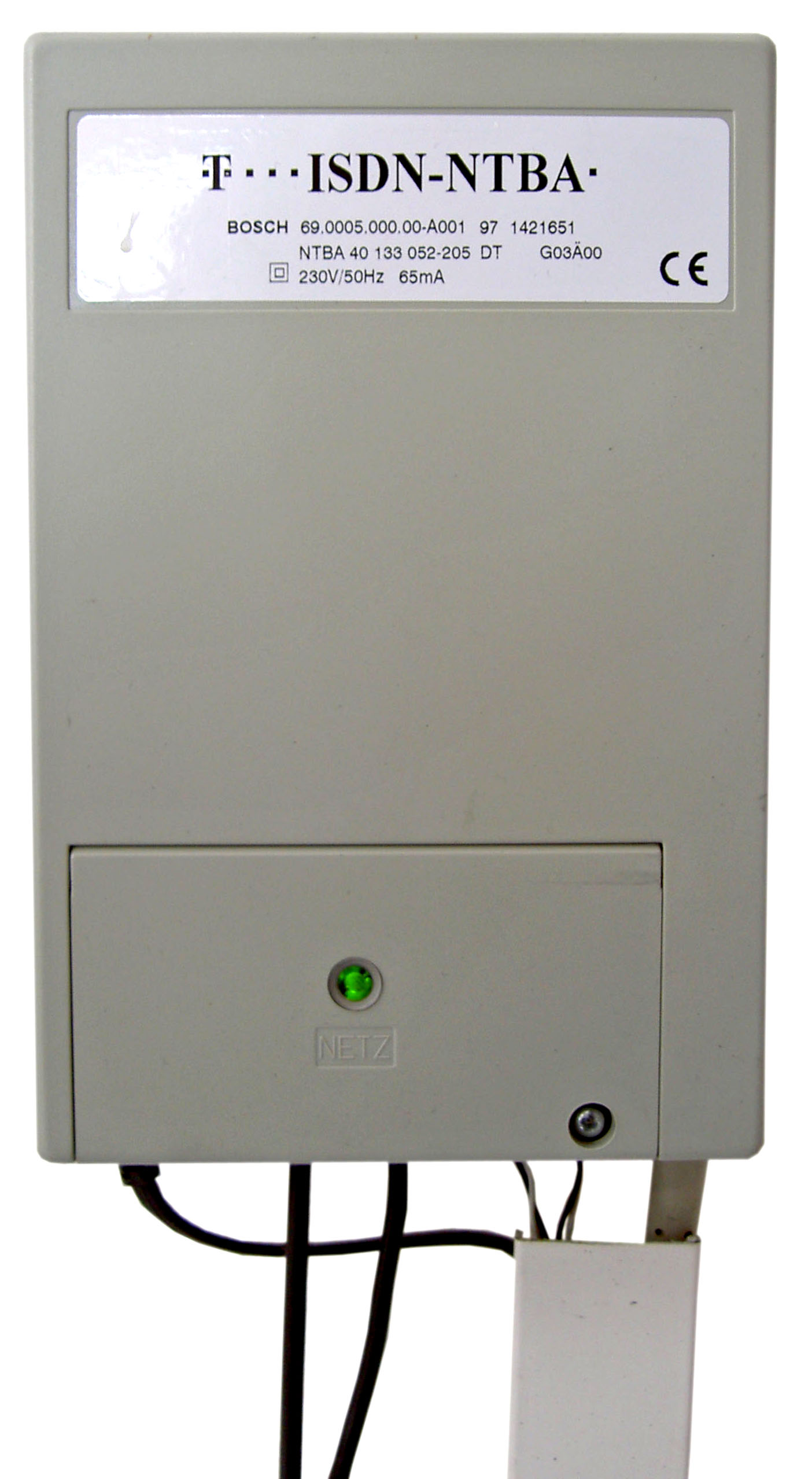 ISDN NTBA T-ISDN